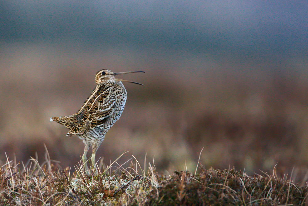 Displaying Great Snipe